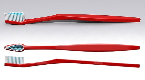 Tooth brush.